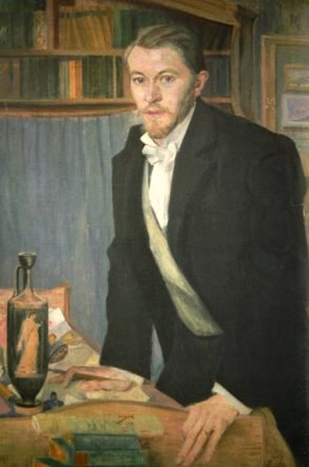 Portrait of Karl Ernst Osthaus (1874—1921), a notable patron of the European avant-garde.